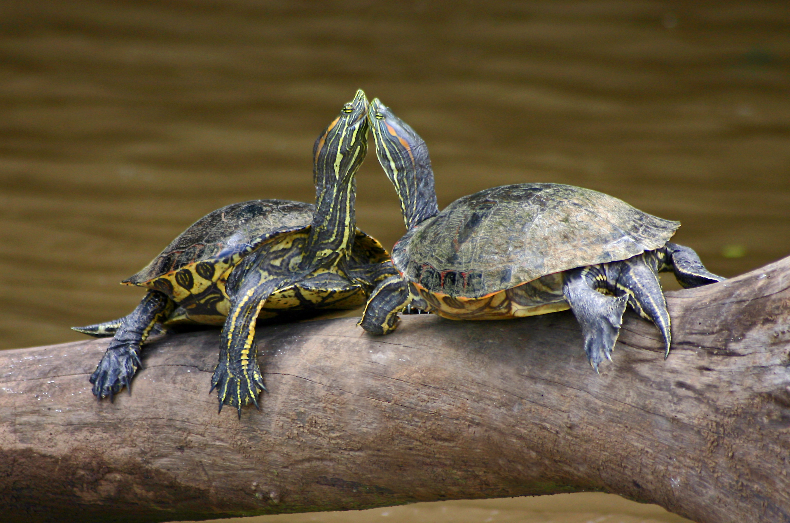 Red-Eared Slider Turtles from North-West of Costa Rica